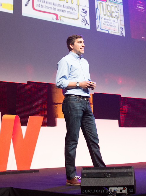 The Next Web 2013 Day 1